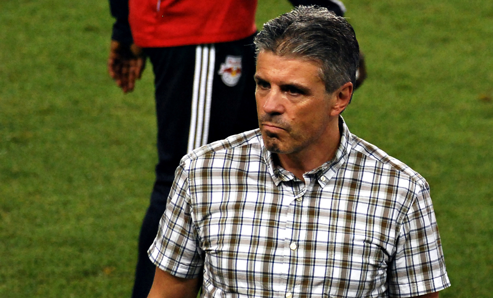 Former Norwegian football player Erik Soler. Photo: Friday, June 10, 2011.